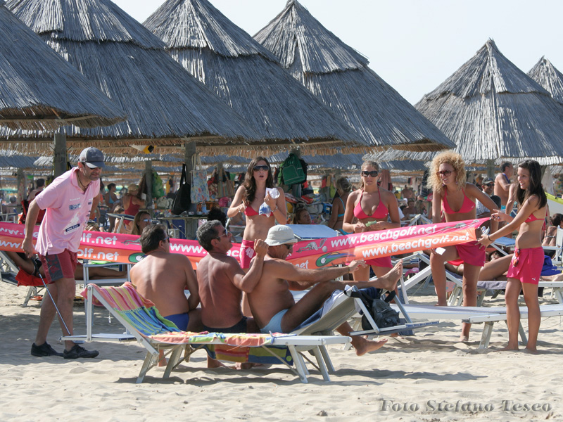 Caddy Girls in action